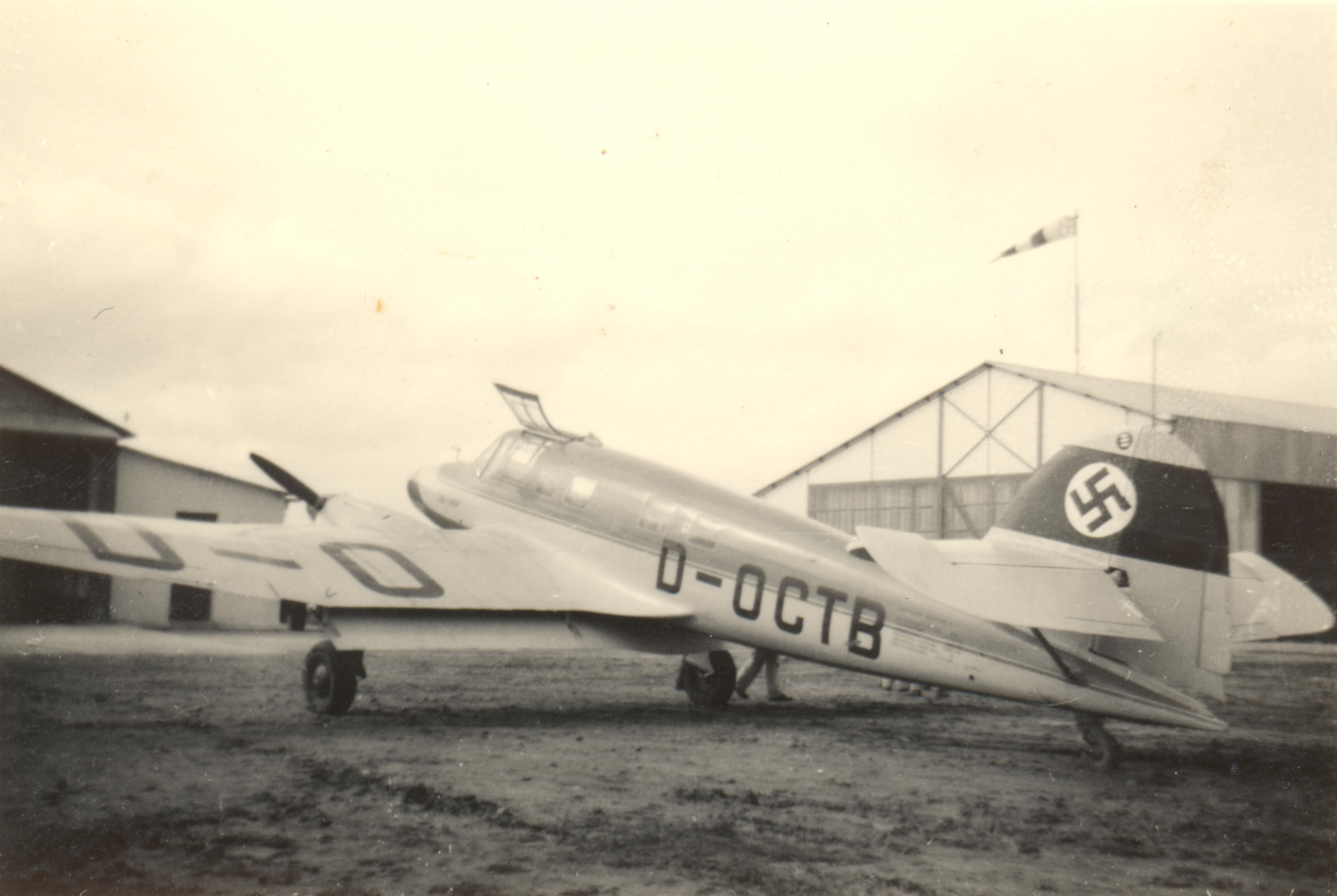 A German Ago Ao 192 (D-OCTB) at tunis in 1939